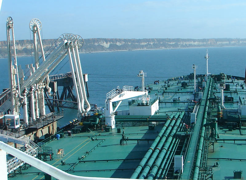 VLCC Algarve unloading crude oil in Antifer.